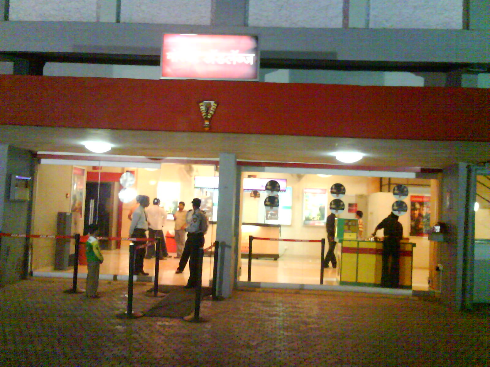 Moreshwar Adlabs main gate